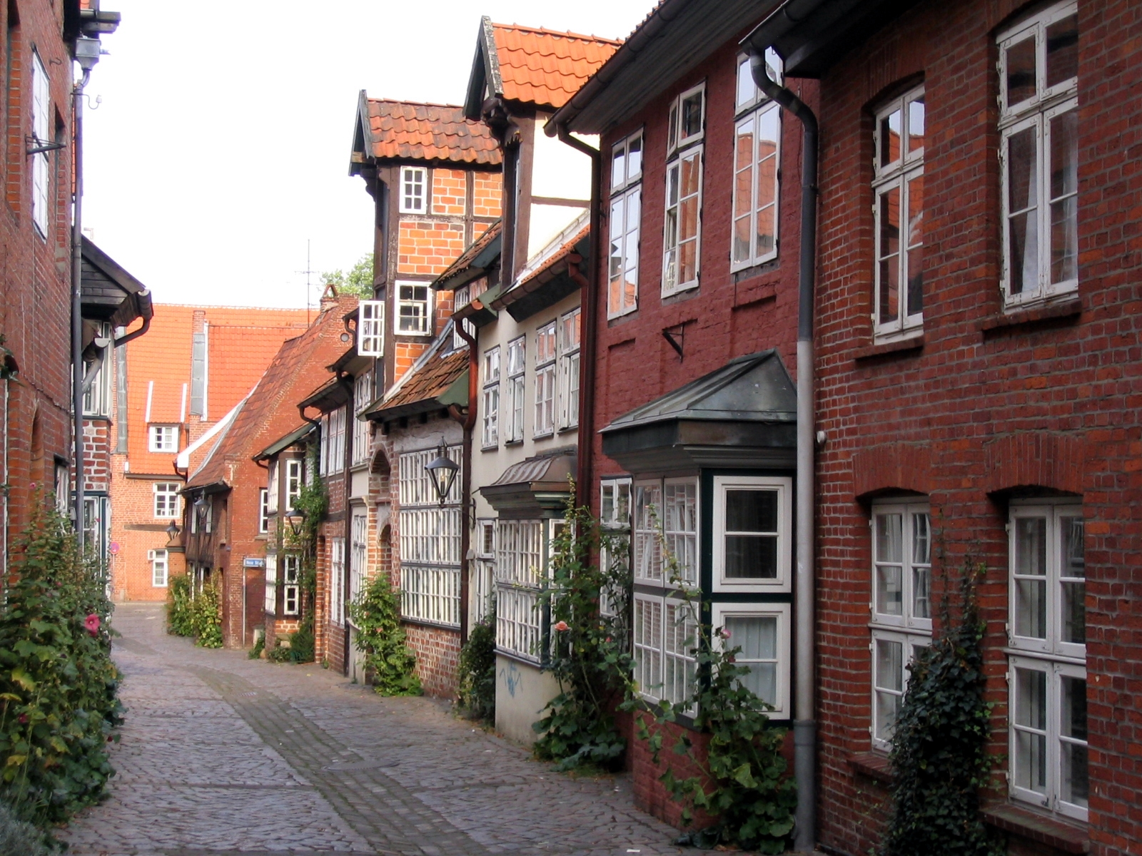 Lüneburg